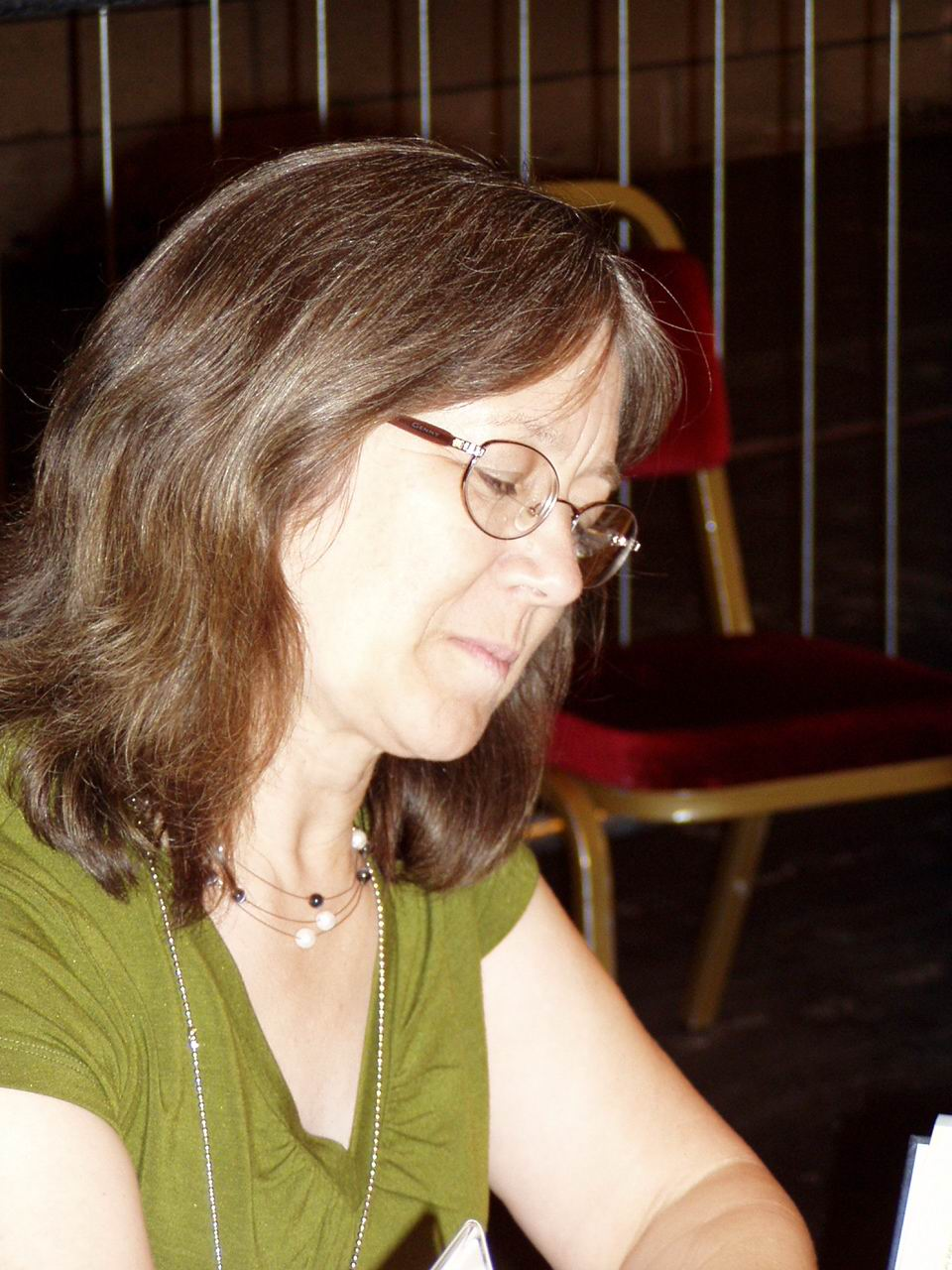 Robin Hobb at Worldcon 2005 in Glasgow.